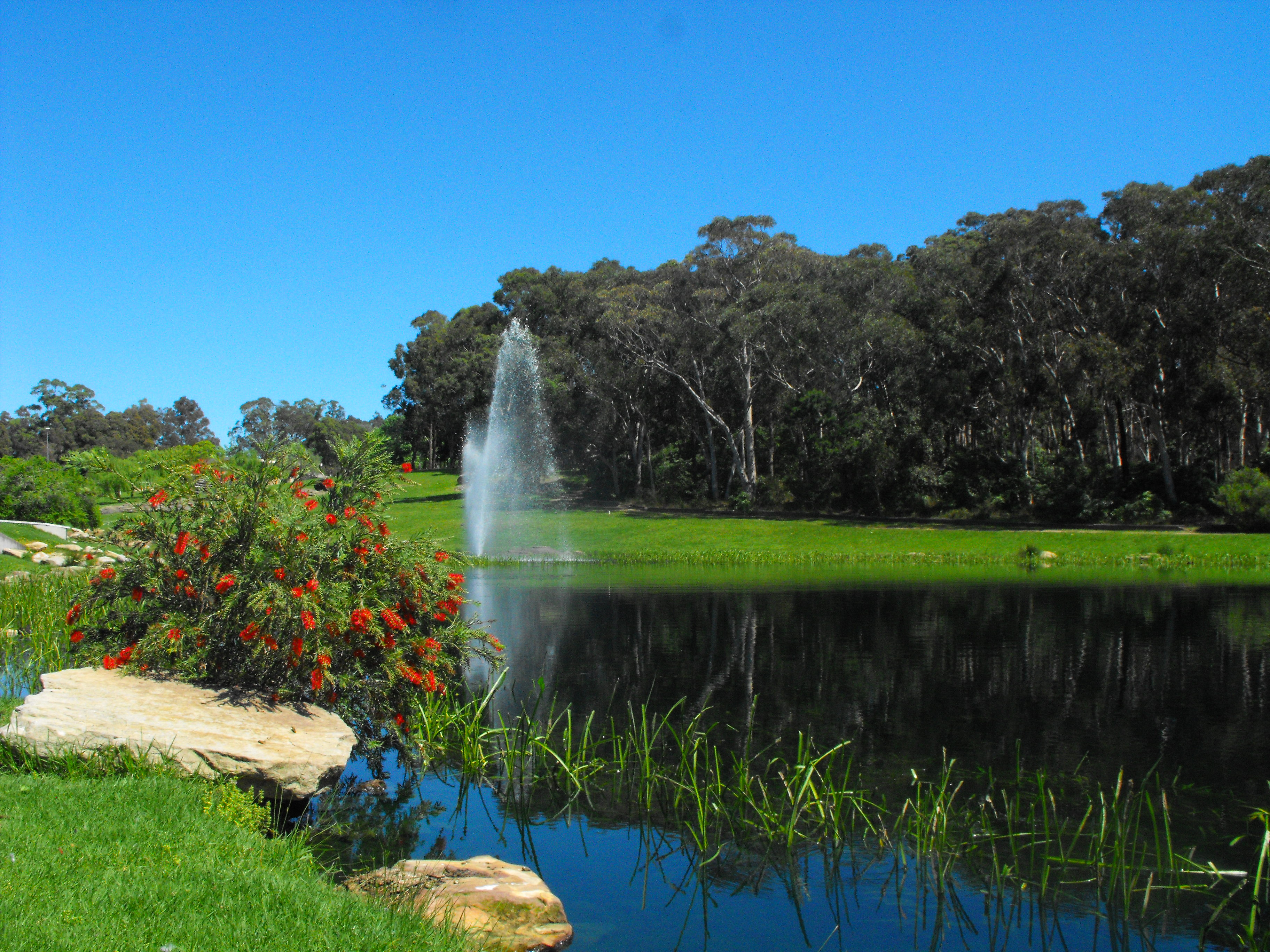 Macquarie University's Pond